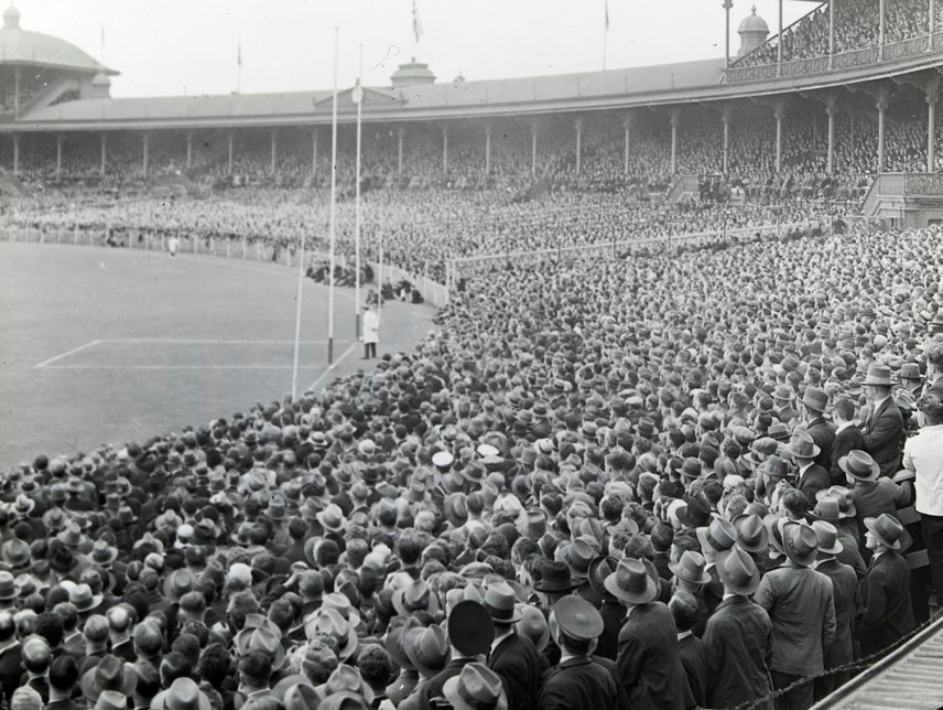 Photograph of a packed Melbourne Cricket Ground during a football match.